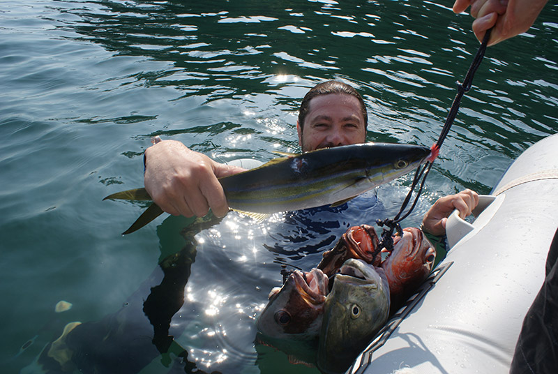 Tarpon fishing This is an image of "African people at work" from Sierra Leone